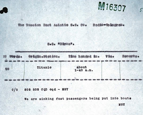 Signal sent by Titanic's wireless operator, Jack Phillips, on 15 April 1912